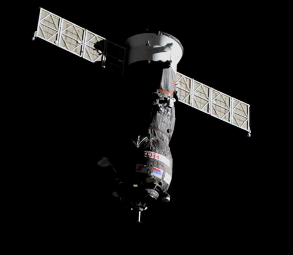 The ISS Progress 76 craft arrived at the complex less than four hours after launch, automatically docking to the Pirs Docking Compartment on the Russian segment of the station.